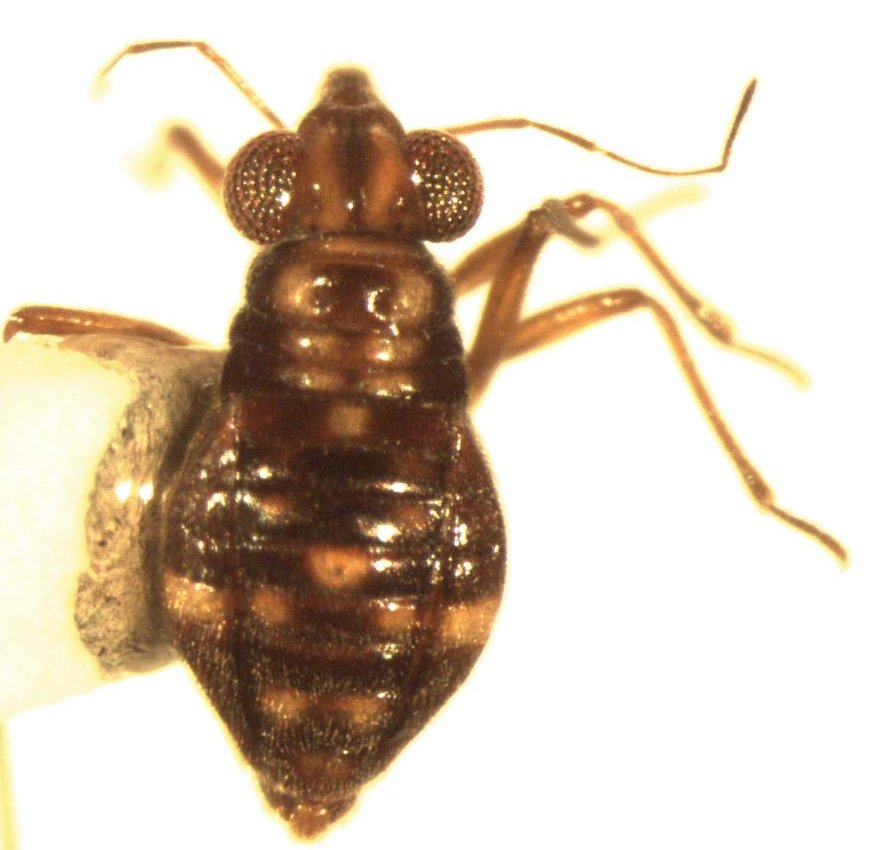 Mniovelia kuscheli